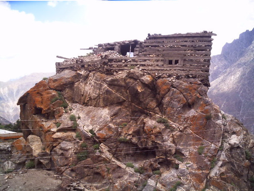 this building was at a rock